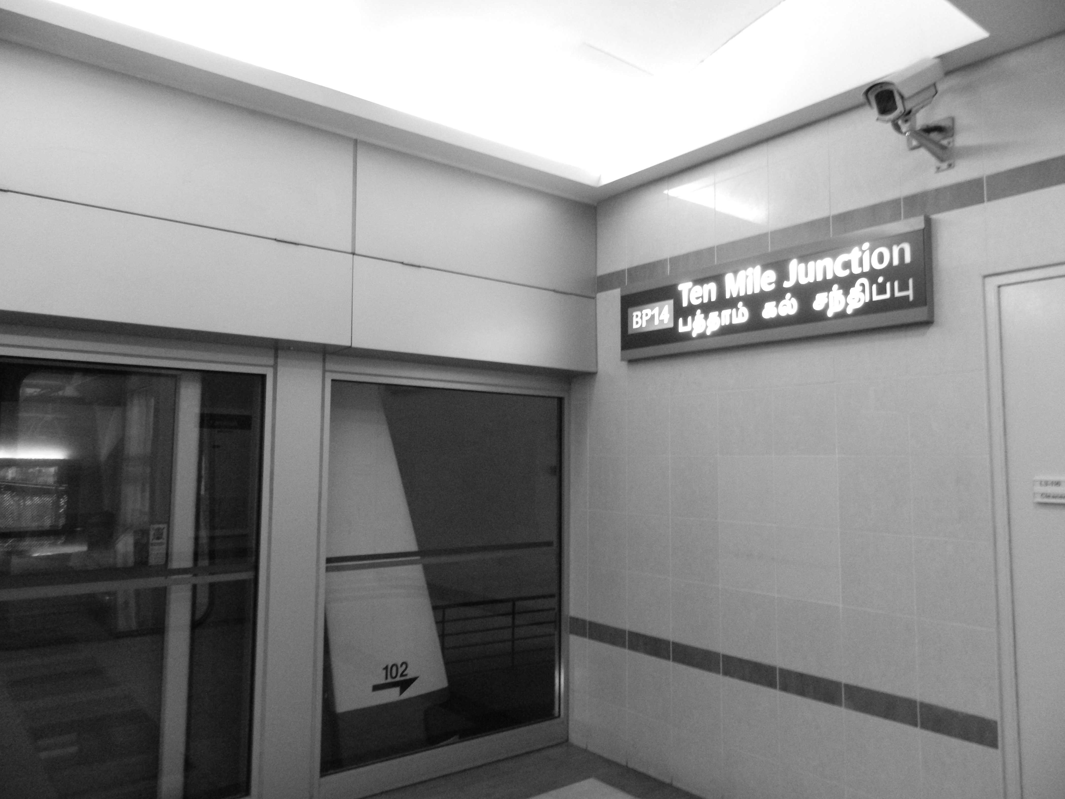 Ten Mile Junction Station Interior.中文（新加坡）: 十里广场轻轨列车站。